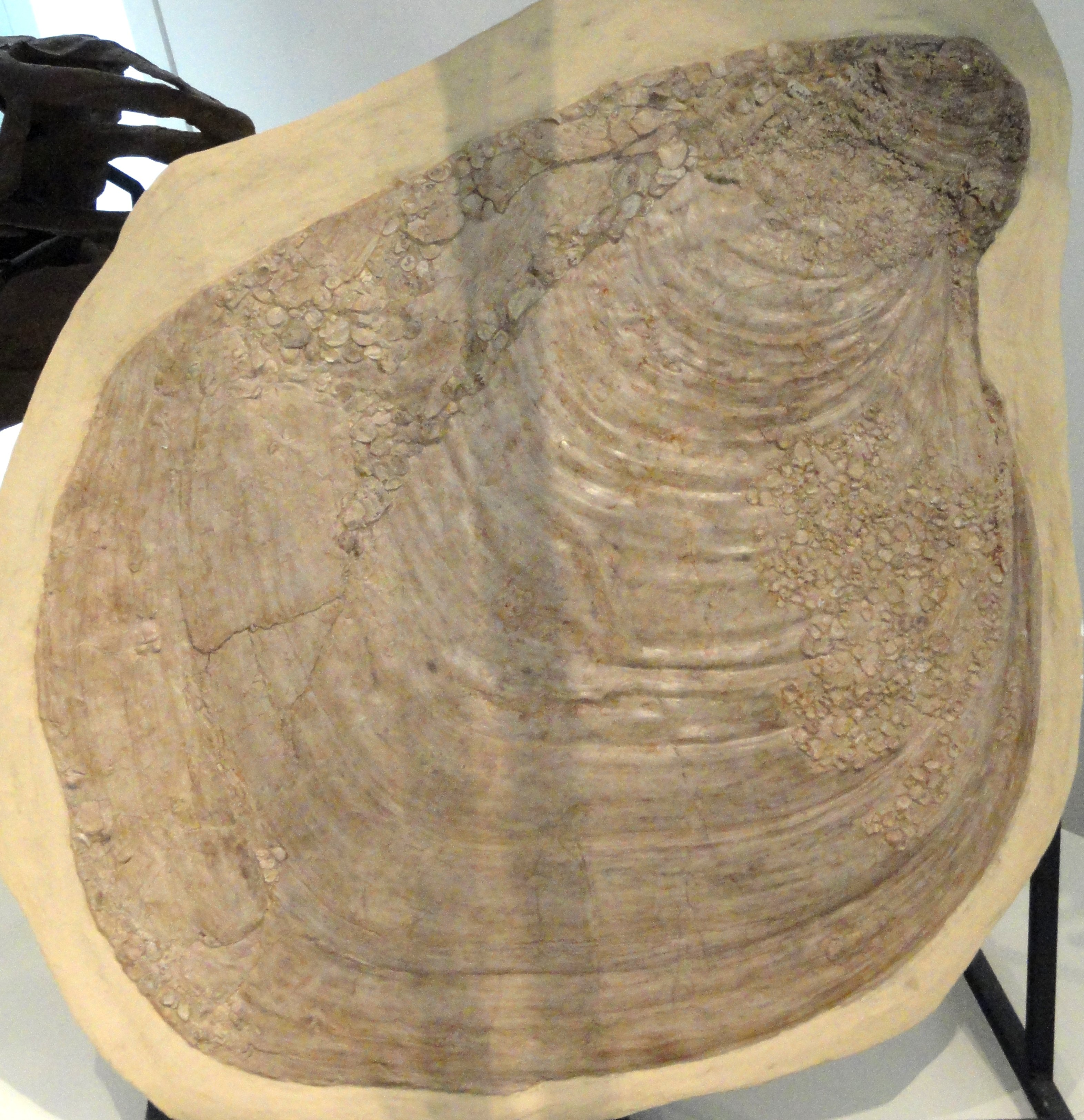 Crop of file in filename